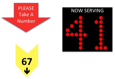 Basic drawing showing an example of a ticket and "Now Serving" sign used in something like a deli or bakery.